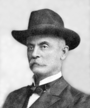 John T. Sparks, an American politician and the tenth Governor of Nevada